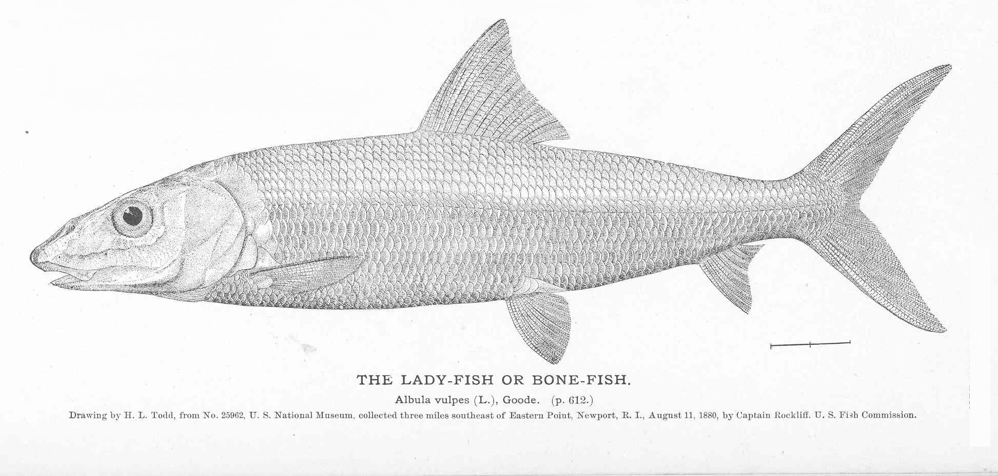 Lady-Fish or Bone-Fish Albula vulpes (L.), Goode Subject: Bonefish Tag: Fish